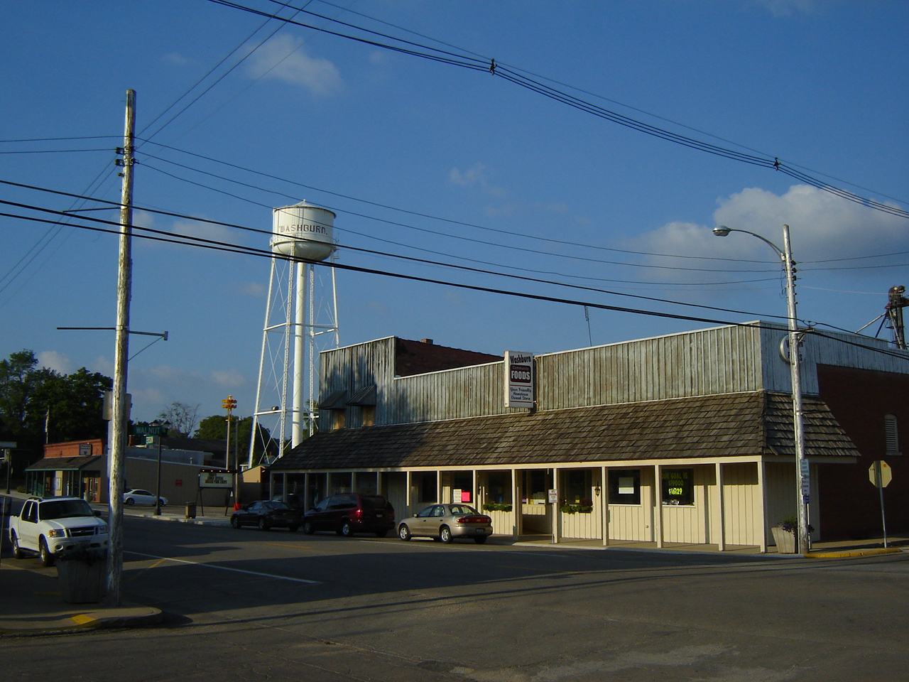 The main road through Washburn, Illinois: Washburn Foods, an independent grocery, and the police station in the background. This picture is a few years old: the water tower has since moved to the other side of the road. The view is from the corner of North Jefferson Street (Illinois-89) and East Walnut Street, looking northeast.